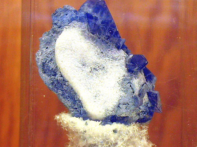 Benitoite crystals from San Benito, California, USA